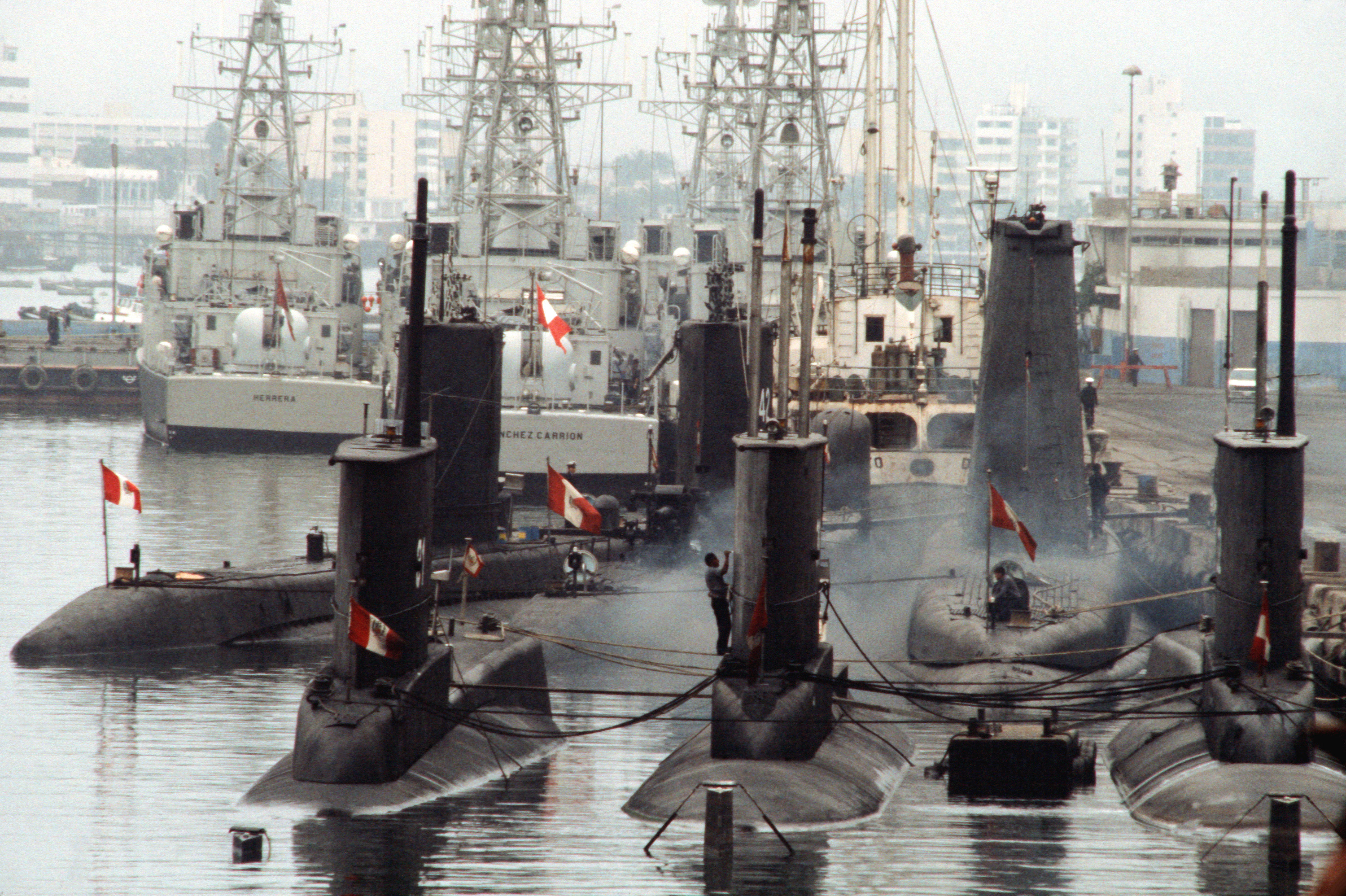 A view of Peruvian submarines and patrol craft moored in the port of Callao during Operation UNITAS XXV.